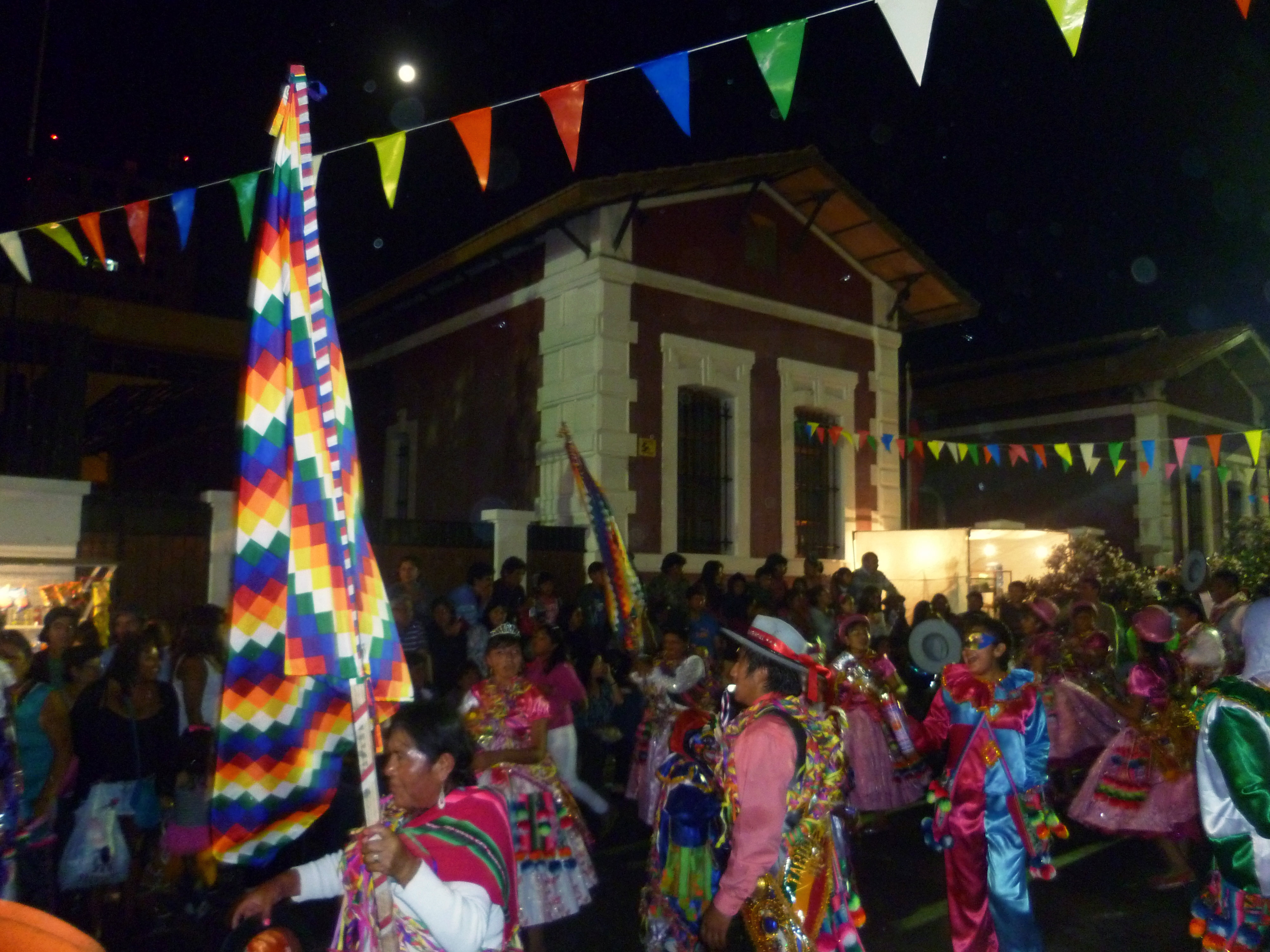 Carnaval con la Fuerza del Sol 2014 Arica - Chile